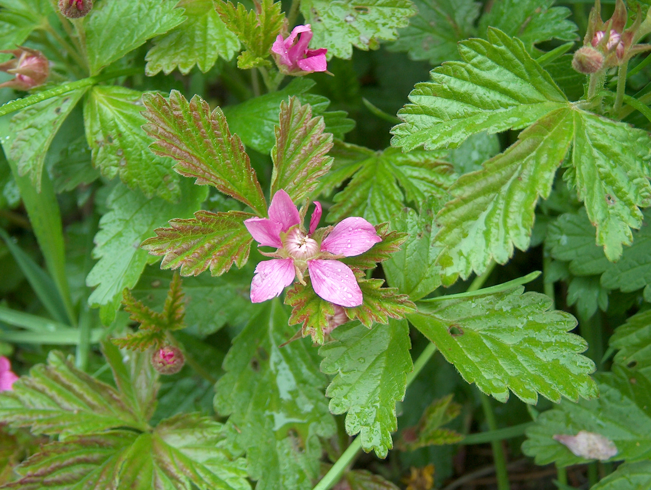 Arctic raspberry (Rubus arcticus) in Kerava, Finland